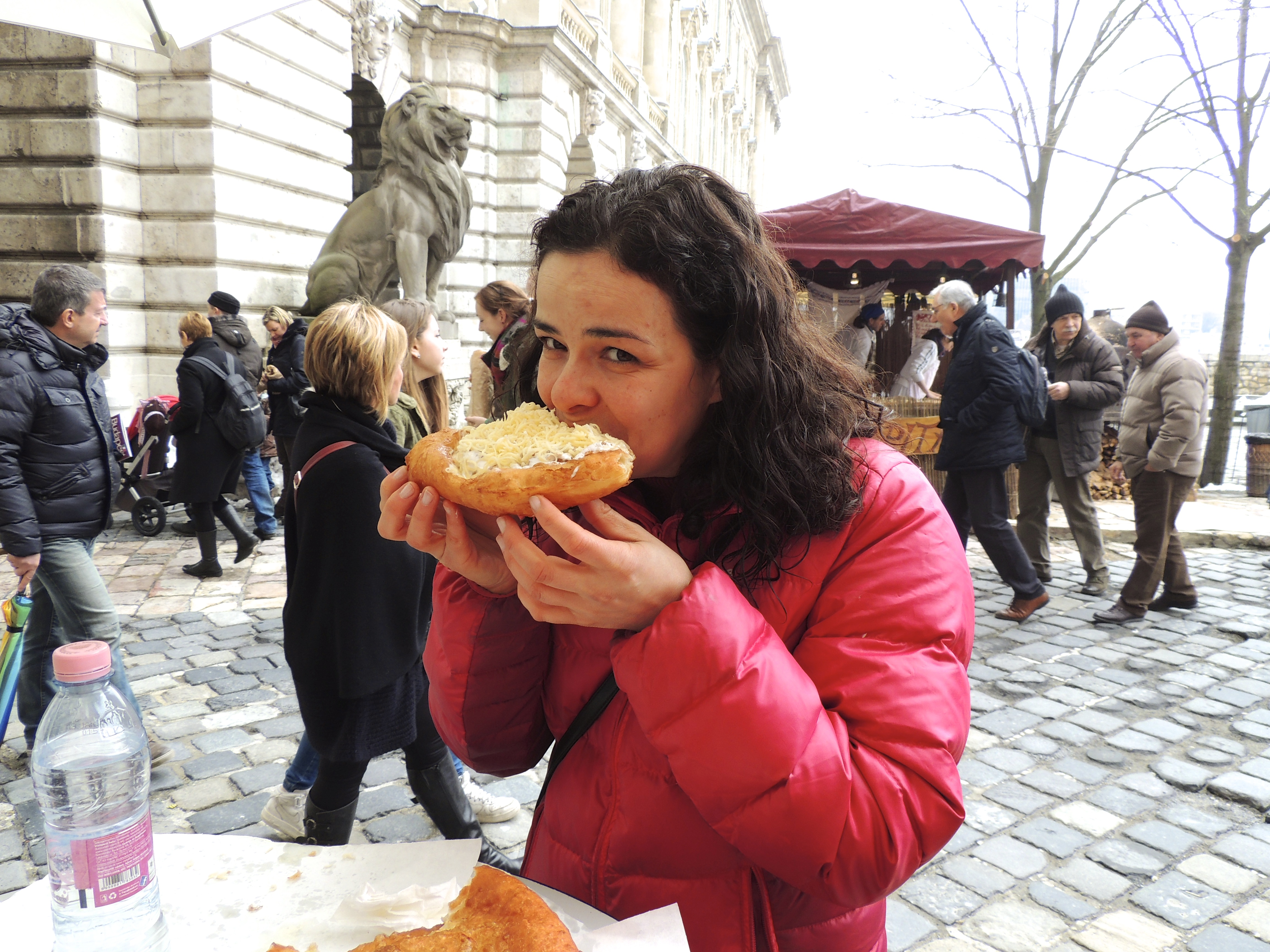 Hungarian lángos in Budapest. Hungarian home style foods, Langos (deep fried flat bread with sour cream and grated cheese) at the Budapest Easter market